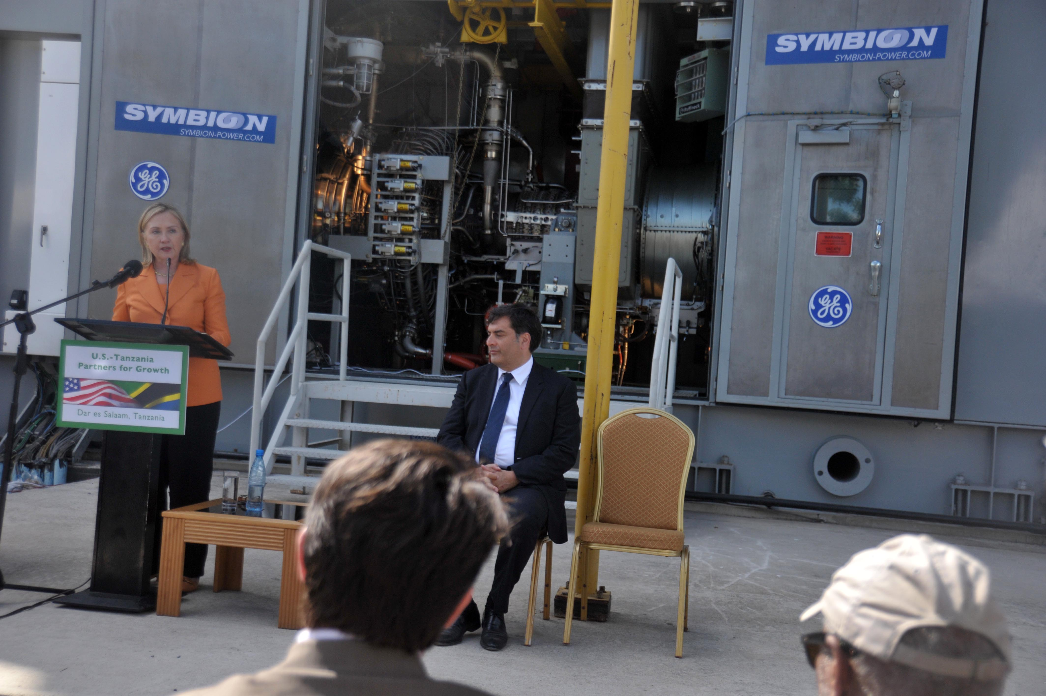 U.S. Secretary of State Hillary Rodham Clinton delivers remarks at the Symbion Power Plant in Dar es Salaam, Tanzania, on June 12, 2011. [State Department photo/ Public Domain]